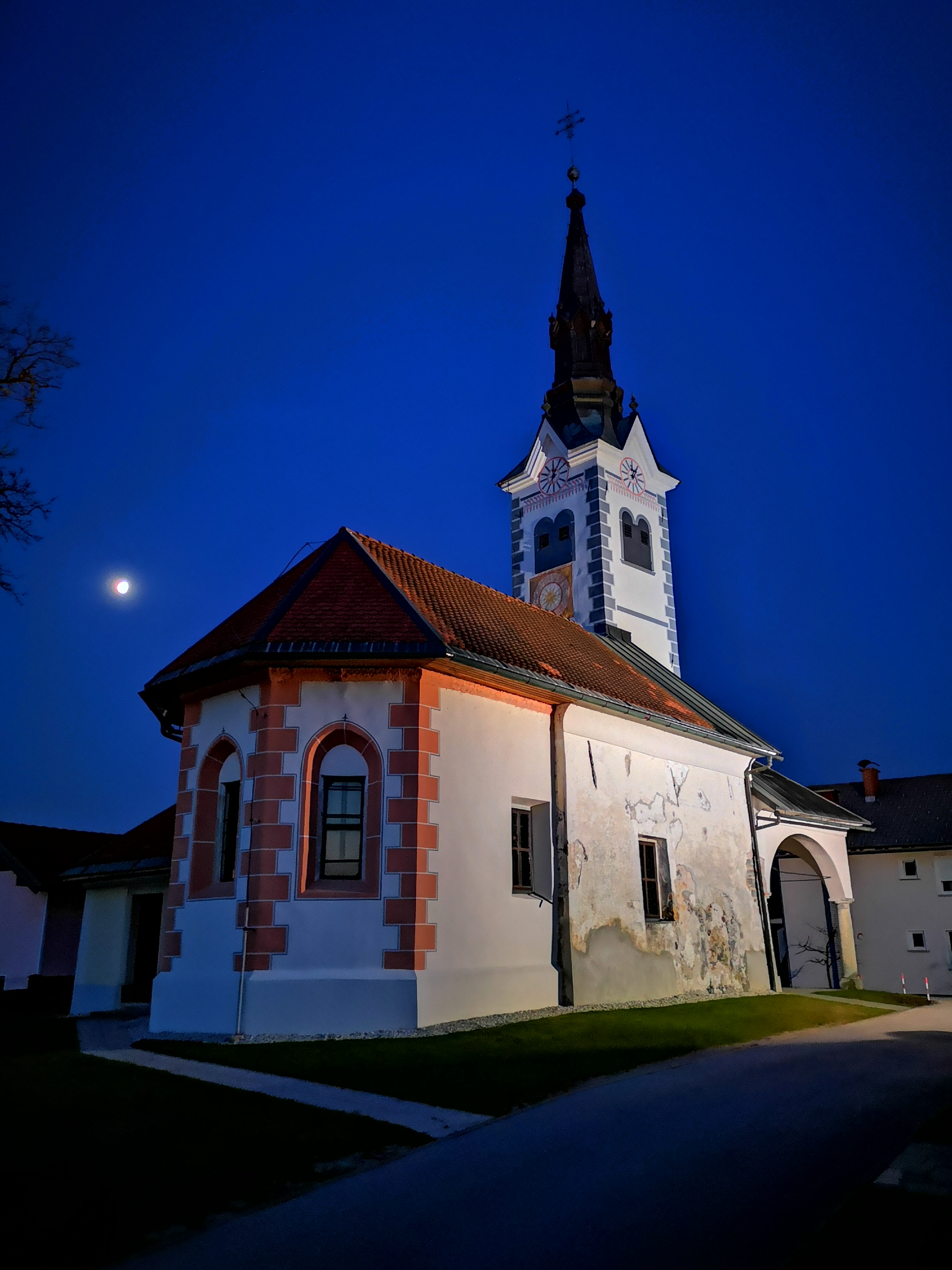 Slovenija, Kranj, Zgornje Bitnje